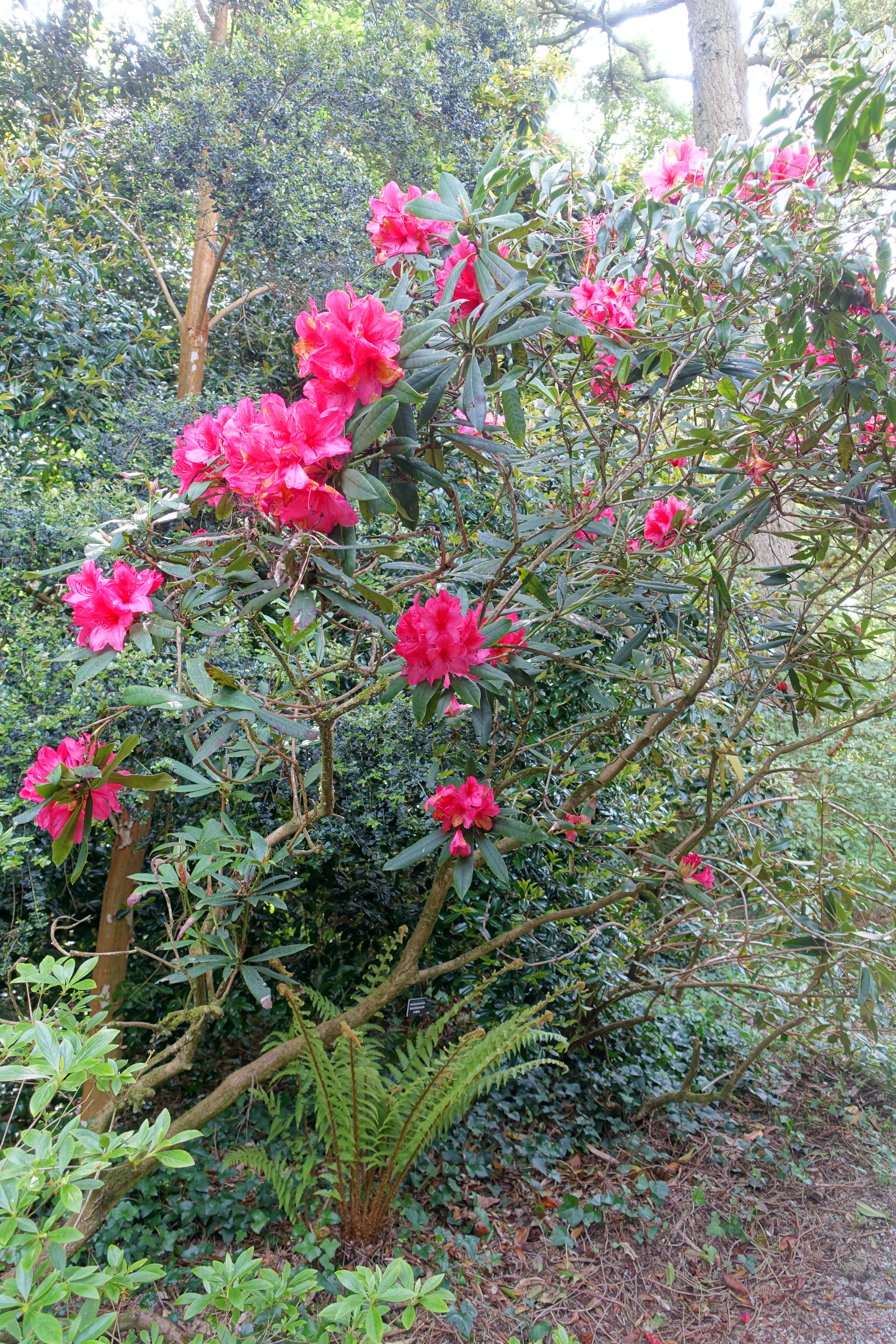 Specimen in the Trengwainton Garden - Madron, Cornwall, England.